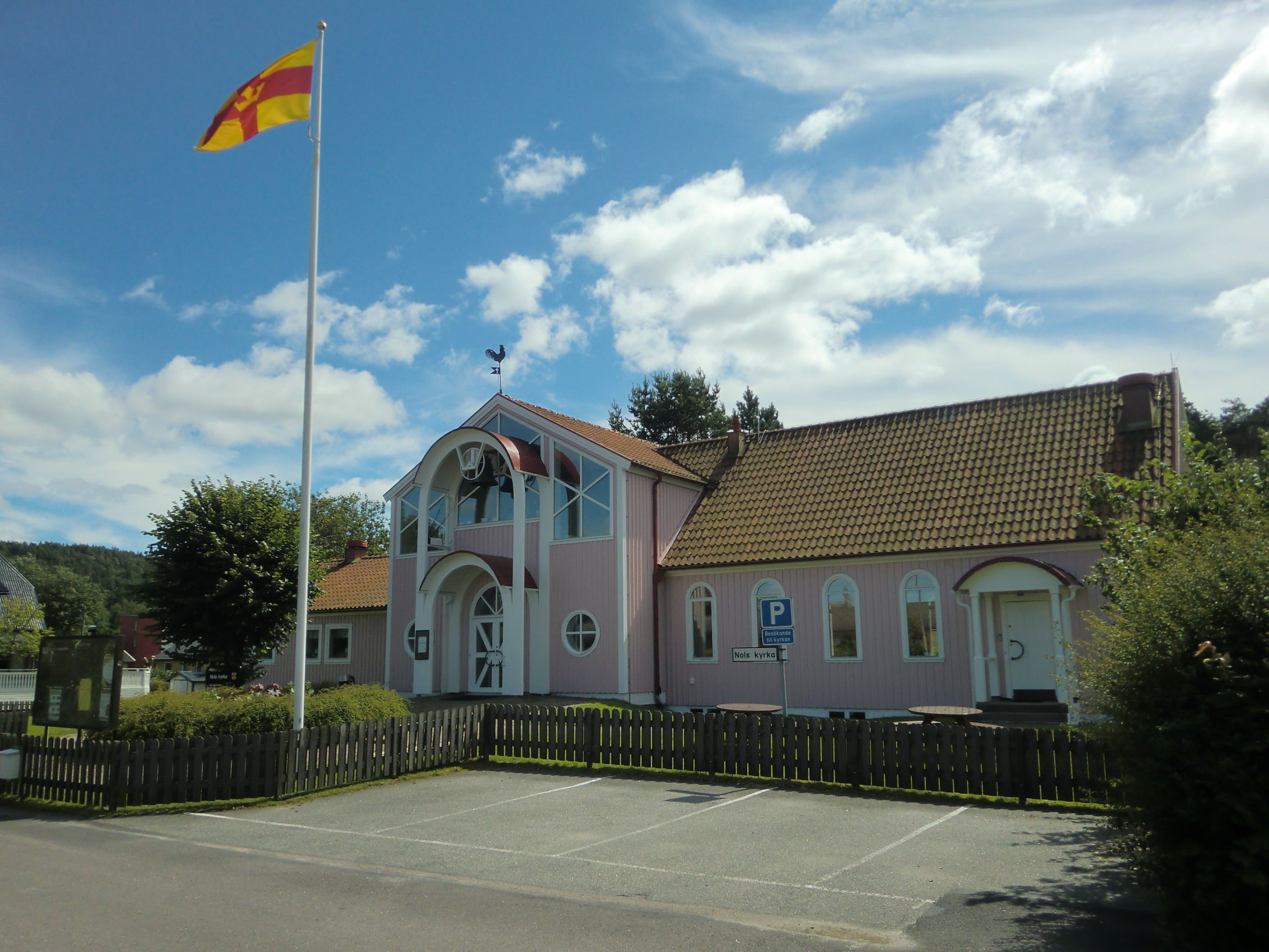 Church in the village Nol, north of Gothenburg, Sweden.